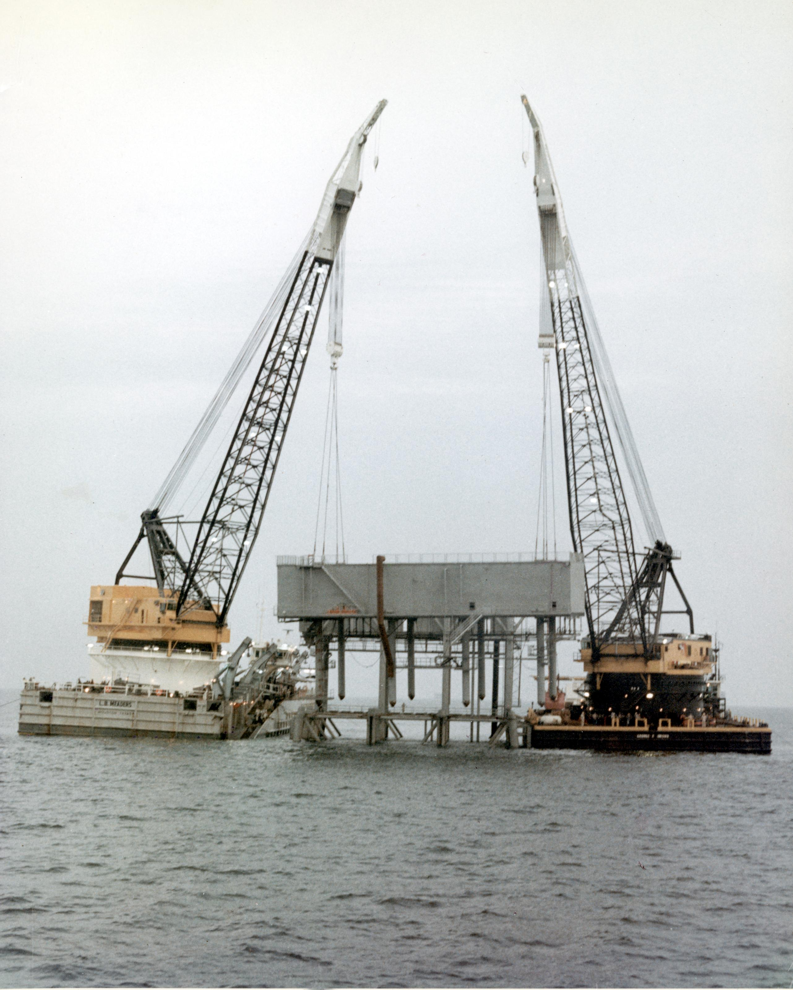 Dual lift by L.B. Meaders and George R. Brown of deck section for production platform.